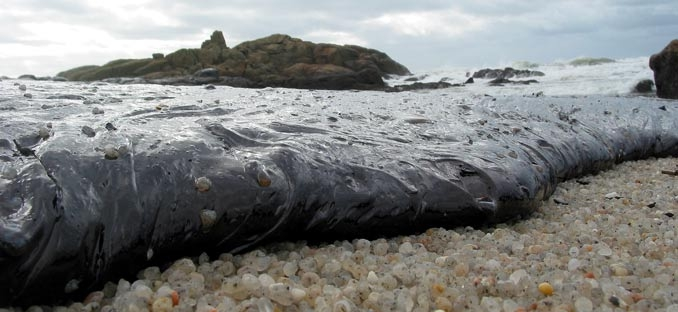 HISTORIAS DEL CHAPAPOTE •Corto Documental 2003 •Dir. Stéphane M. Grueso •Prod. Stéphane M. Grueso •Backpackvideo Films •1 x 35' / color / stereo •DVCAM Tras el vertido del petróleo Prestige frente a las costas gallegas se produce la mayor catástrofe medioambiental de la historia de España. Toneladas y toneladas de petróleo van llegando a las costas. Ante la pasividad o desbordamiento de las autoridades, los ciudadanos se organizan y van a Galicia a ayudar a recoger el fuel. La figura del voluntario nace en España. En este documental seguimos la experiencia de un grupo de 50 voluntarios organizados por la Universidad de Sevilla, que van a Galicia a luchar contra la catástrofe. Durante seis días seguimos sus actividades y nos cuentan sus experiencias. Mediante este documental pretendemos descubrir y comprender las motivaciones que llevan a un grupo de personas a realizar una acción tan solidaria, novedosa y casi desconocida en nuestros días. Más info en: ENGLISH---------------------------------- STORIES OF THE CHAPAPOTE •Documentary 2003 •Dir. Stéphane M. Grueso •Prod. Stéphane M. Grueso •Backpackvideo Films •1 x 35' / color / stereo •DVCAM The spill from the Prestige, the oil tanker which broke up and sank off the coast of Galicia, caused the biggest environmental disaster in Spain's history. Tones and tones of oil kept arriving at the coast. With the authorities failing to act or overtaken by events, ordinary citizens organized themselves and set off for Galicia to help clean up the fuel oil. Thus was the figure of the volunteer born in Spain. This documentary records the experiences of a group of 50 volunteers organized by the University of Seville who went to Galicia to combat the catastrophe. It follows them for six days and they tell us about their experiences. This documentary sets out to discover and understand what motivates a group of people to carry out such a novel act of solidarity, something practically unheard of nowadays. More Infos in